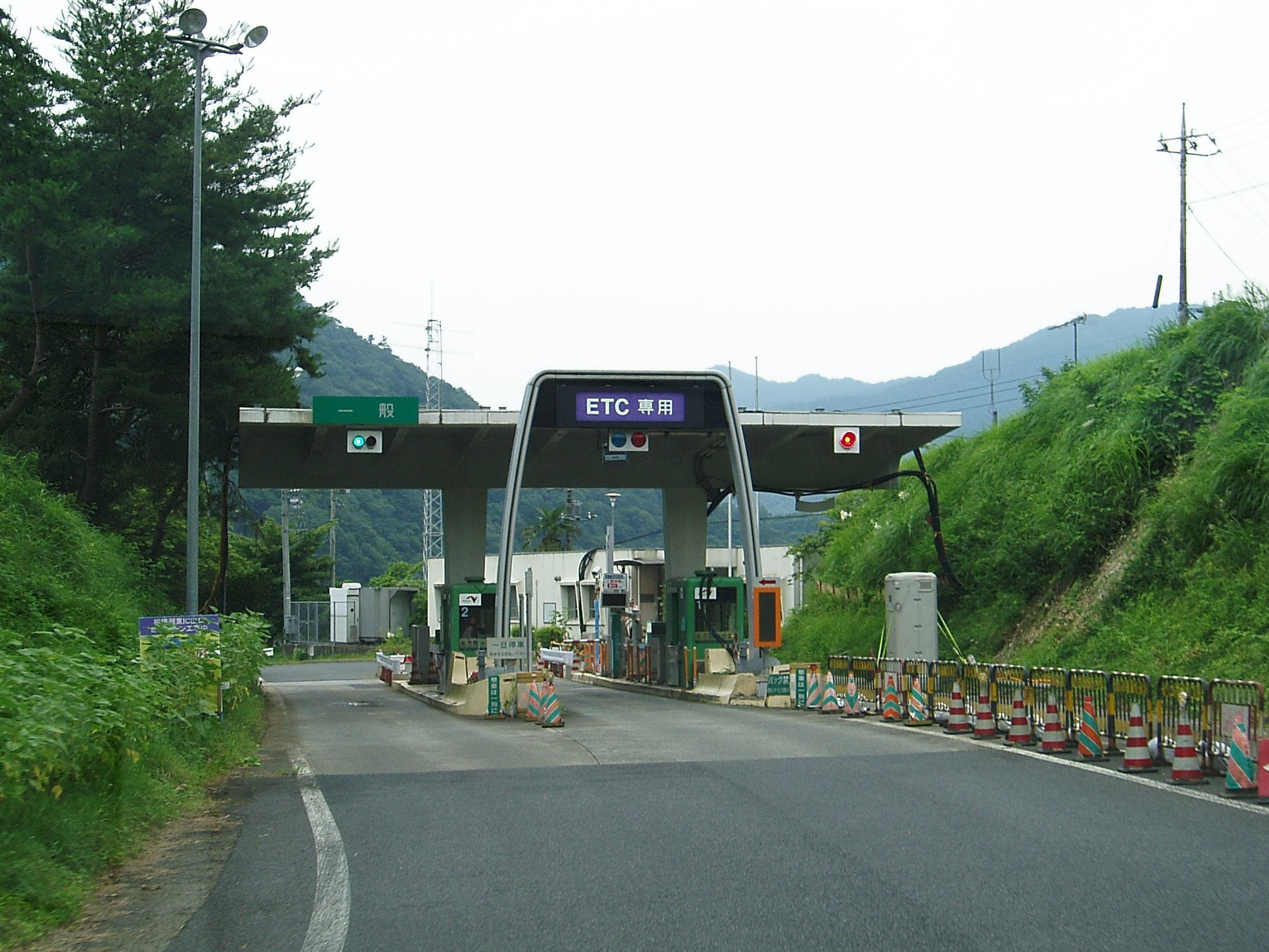 Sagamiko-higashi Interchange(Exit only) toll gate.